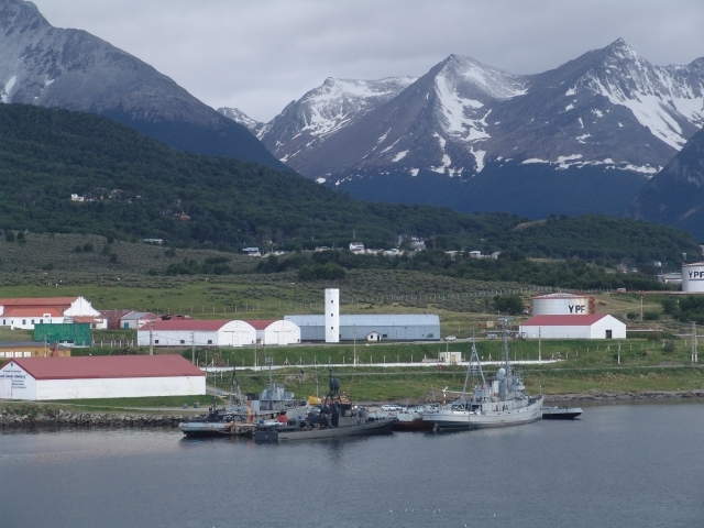 Argentine Navy Boat in Ushuaia